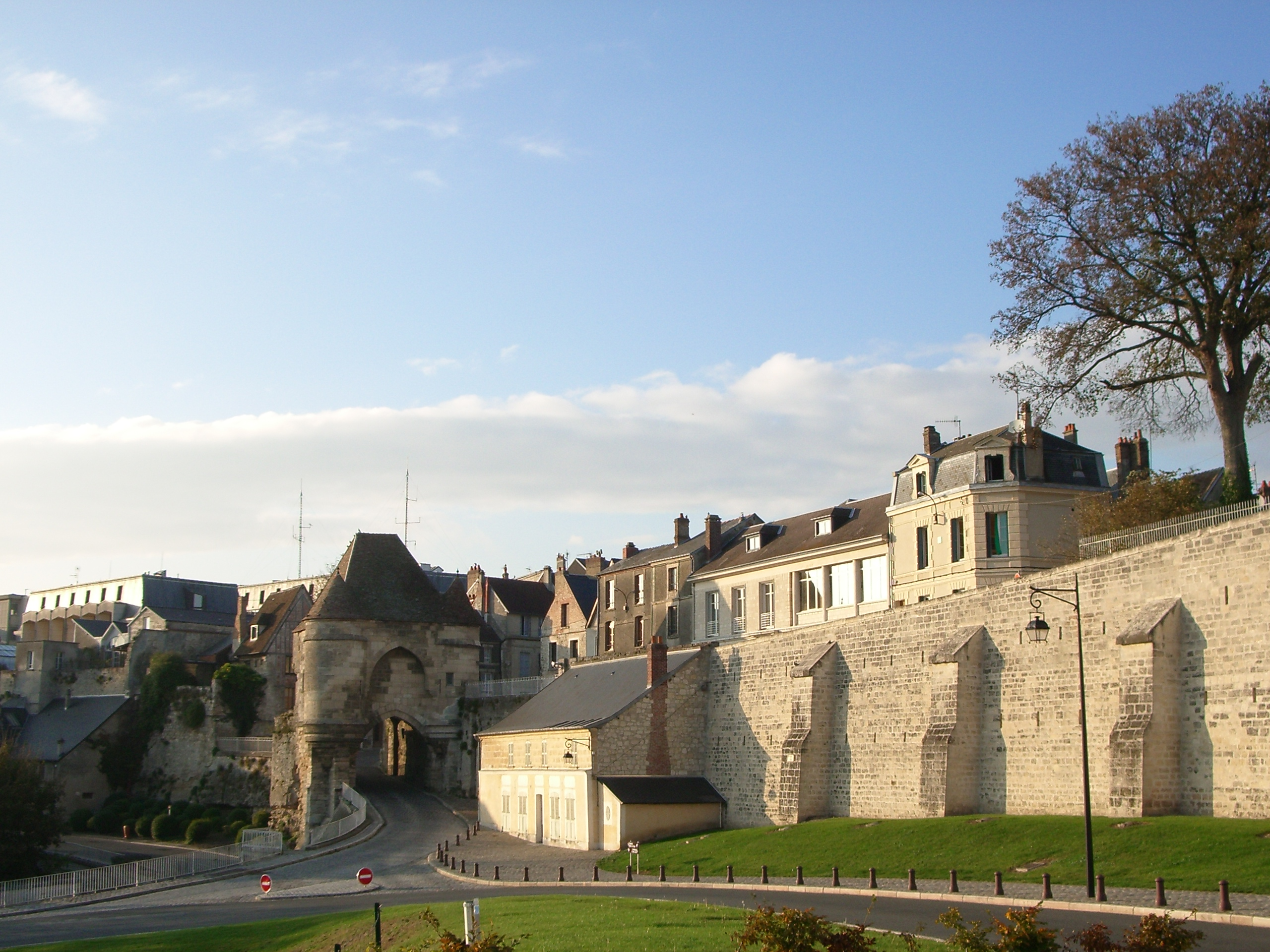 Ardon's gate and Laon's walls, Aisne, France